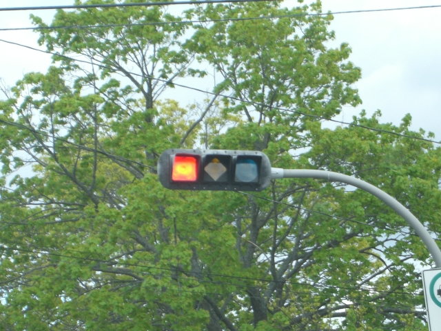 A traffic signal with specially shaped lights to assist people with colour blindness. This traffic was designed by MUNICIPAL SIGNAL Ville St-Laurent (Montreal, Quebec, Canada. Was also where the first Solid Stata Trafic Controller was design and presented at the Miami 1965 December fare of the International Municipal Association. The controler was design and build at the research center of CAE Montreal, Canada.